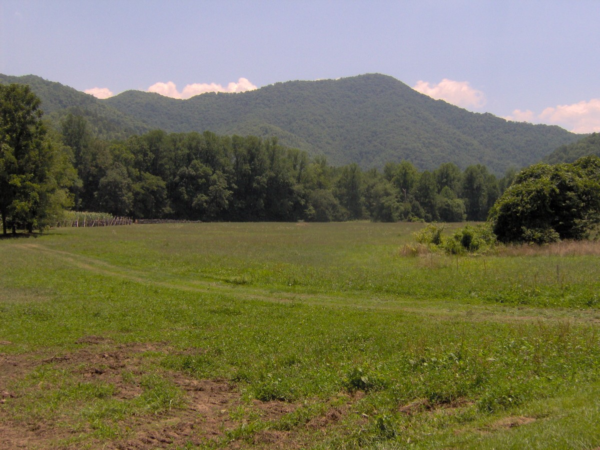 The Oconaluftee Bottomlands, near the river's confluence with Raven Fork. Rattlesnake Mountain is in the distance. The only known Cherokee village within the boundaries of the modern Great Smoky Mountains National Park was located in this area.